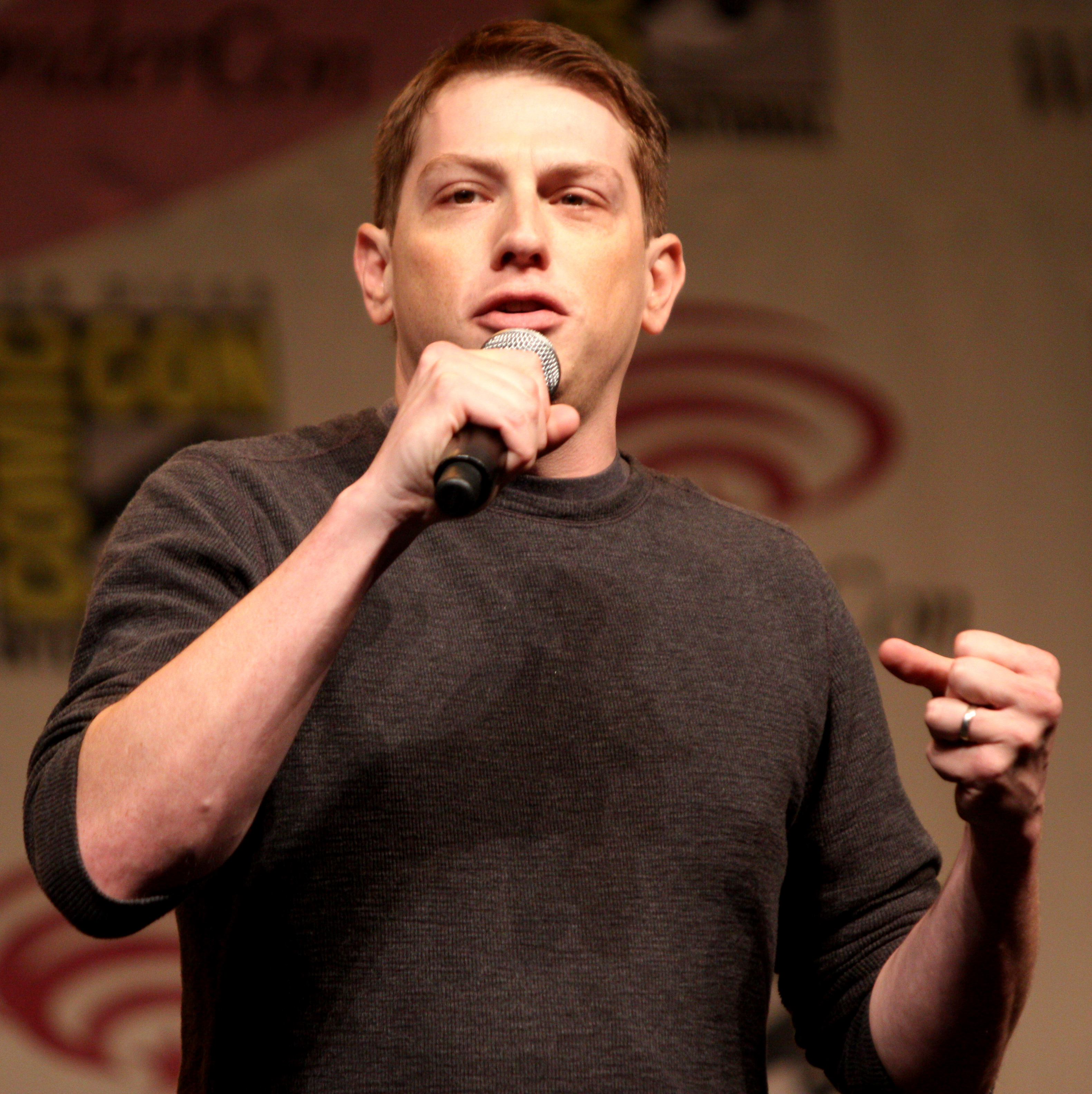 Seth Grahame-Smith speaking at Wondercon 2012 in Anaheim, California on March 17, 2012.